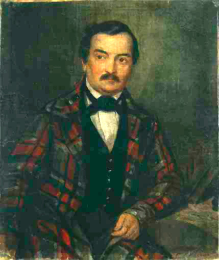 The bavarian coachman Franz Xaver Krenkl (1780-1860)